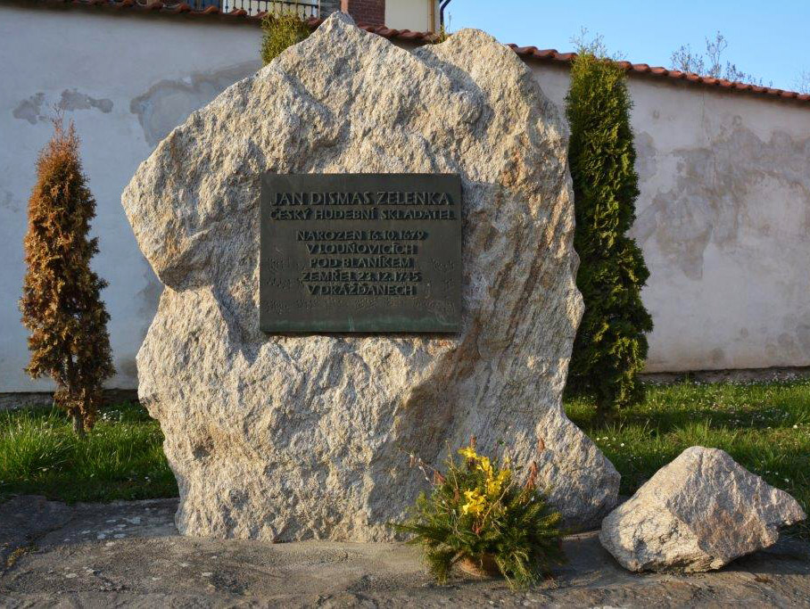 Jan Dismas Zelenka memorial in Louňovice pod Blaníkem, Czechia